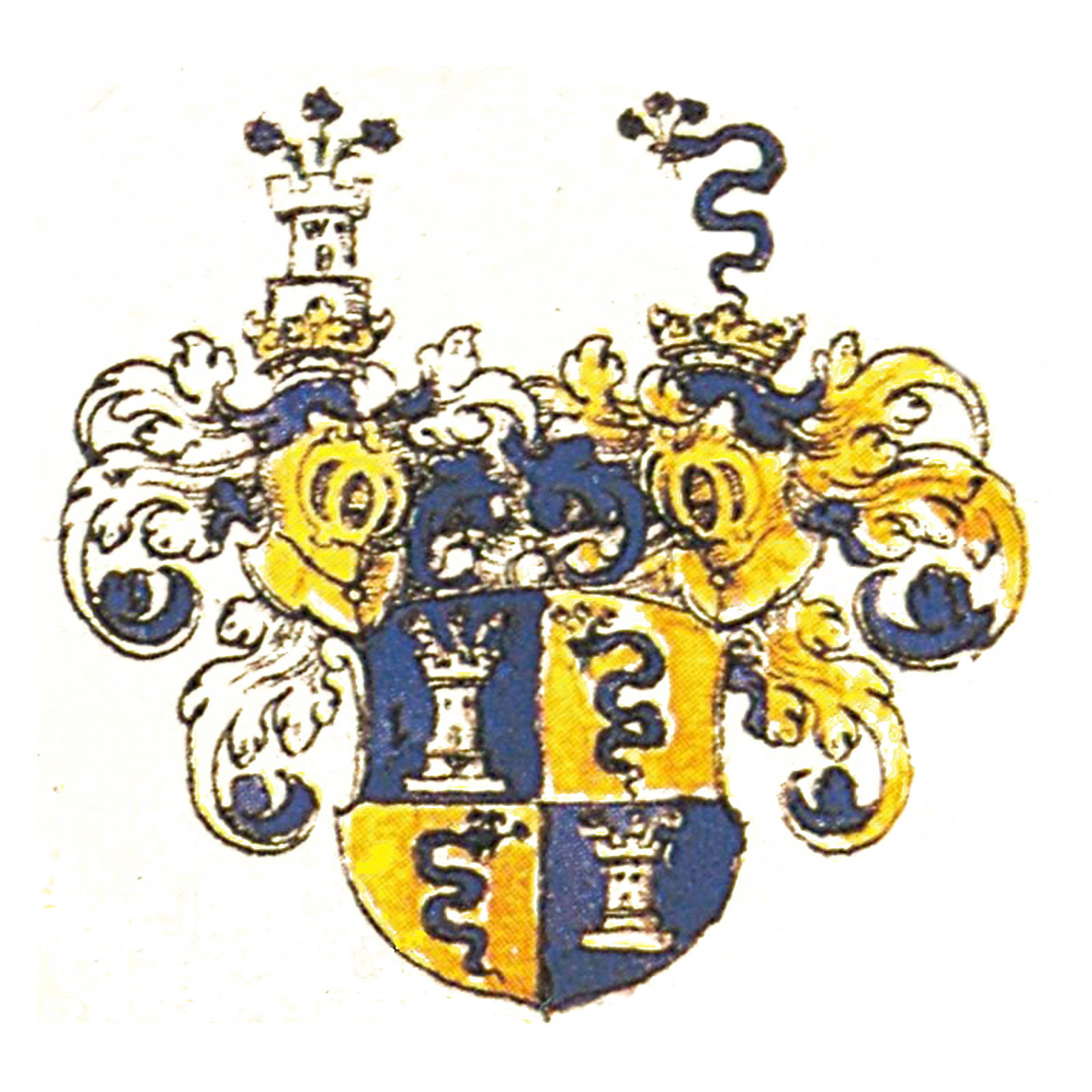 Armoiries des comtes de Linari